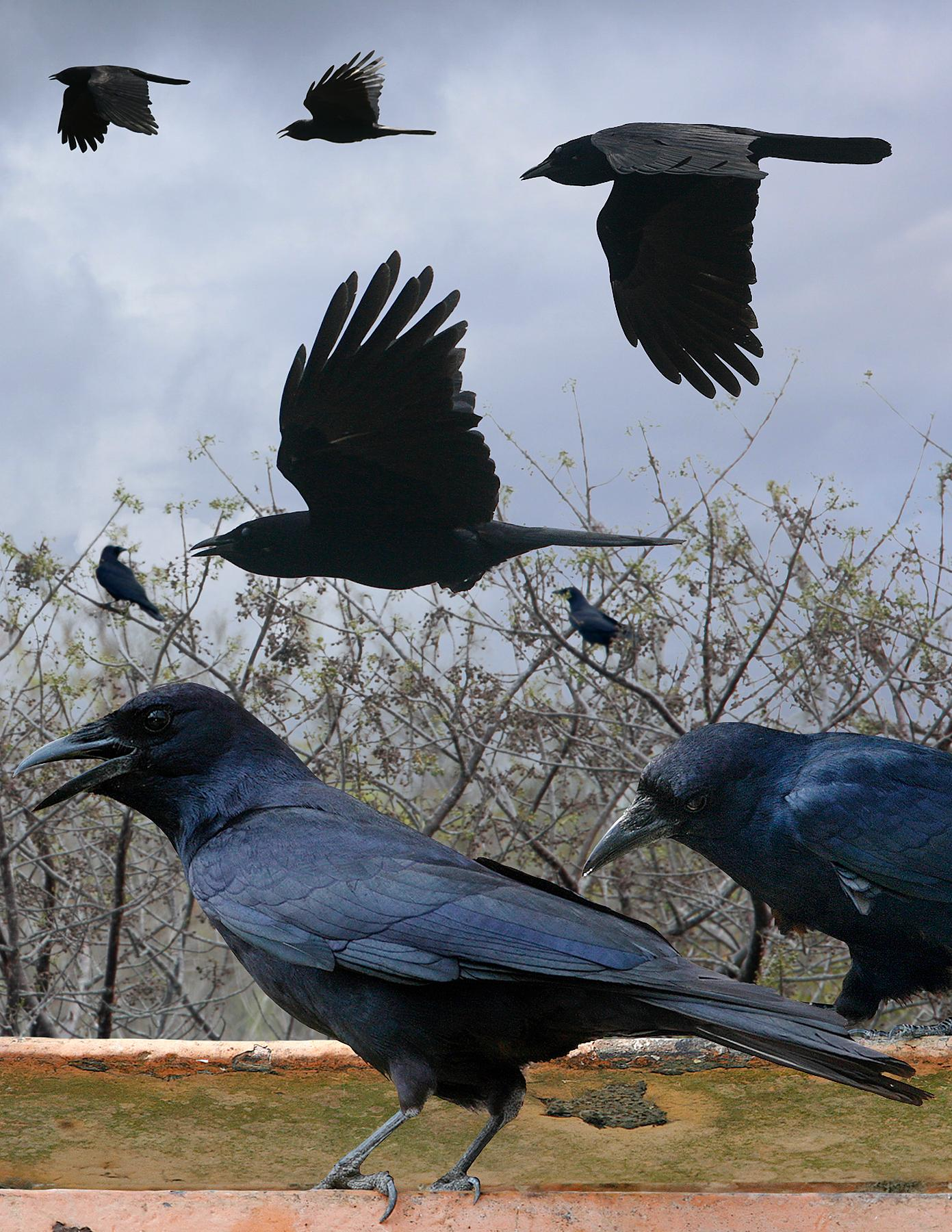 Tamaulipas Crow From The Crossley ID Guide Eastern Birds